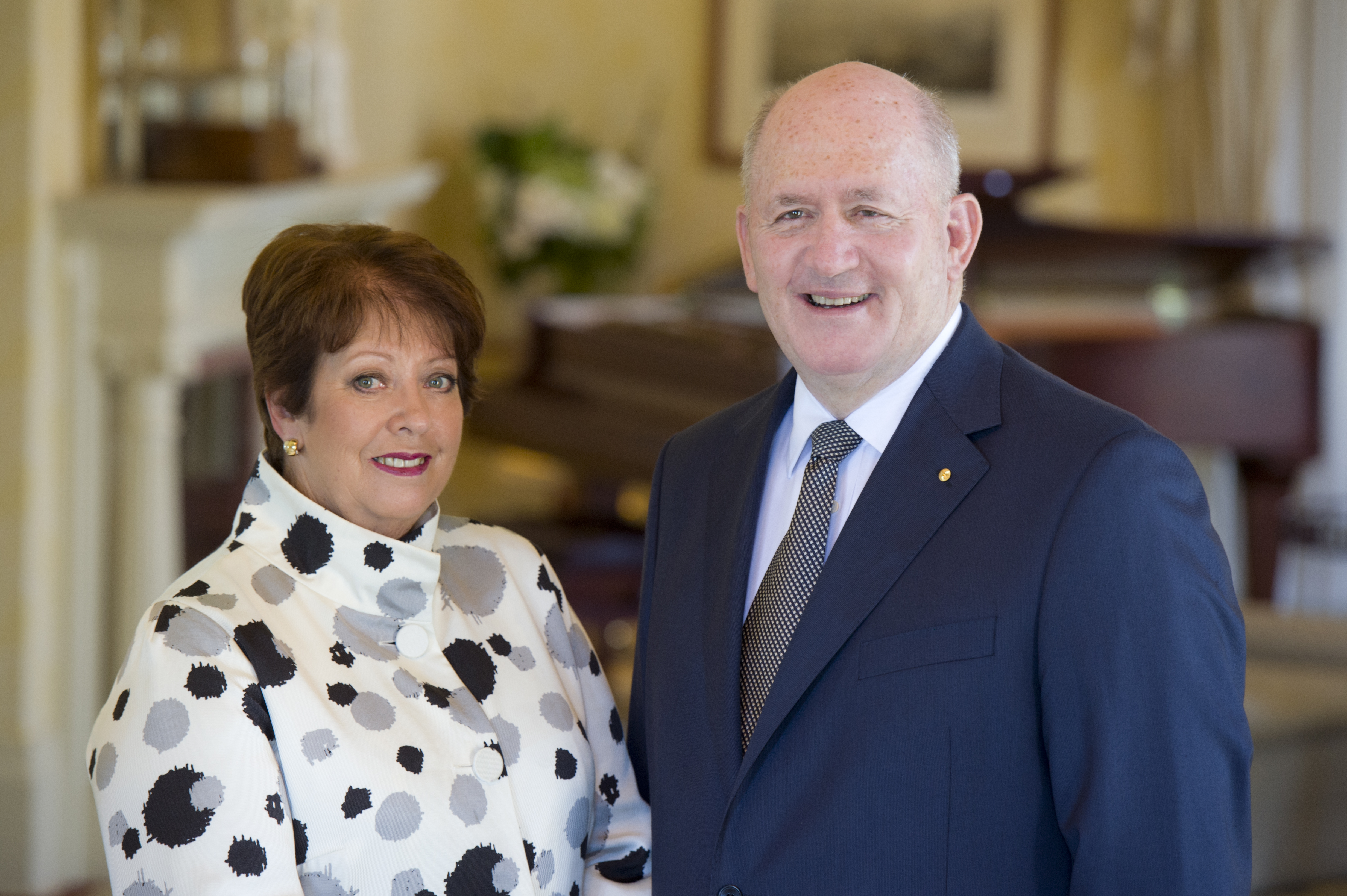 Peter Cosgrove (Governor-General of Australia) with his wife Lynne Cosgrove, 2014